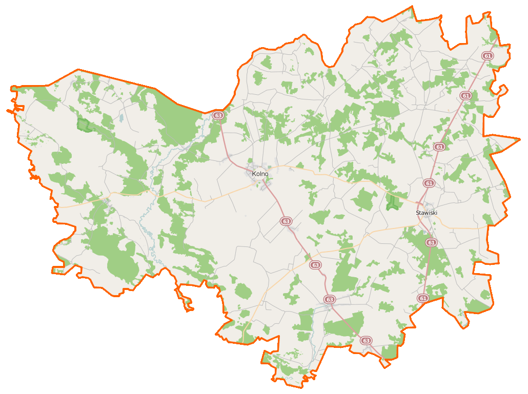 Map of Powiat kolneński, Poland This map of Powiat kolneński was created from OpenStreetMap project data, collected by the community. This map may be incomplete, and may contain errors. Don't rely solely on it for navigation.